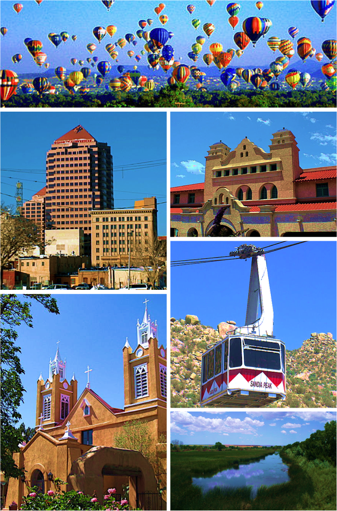 false-color montage of images of Albuquerque NM